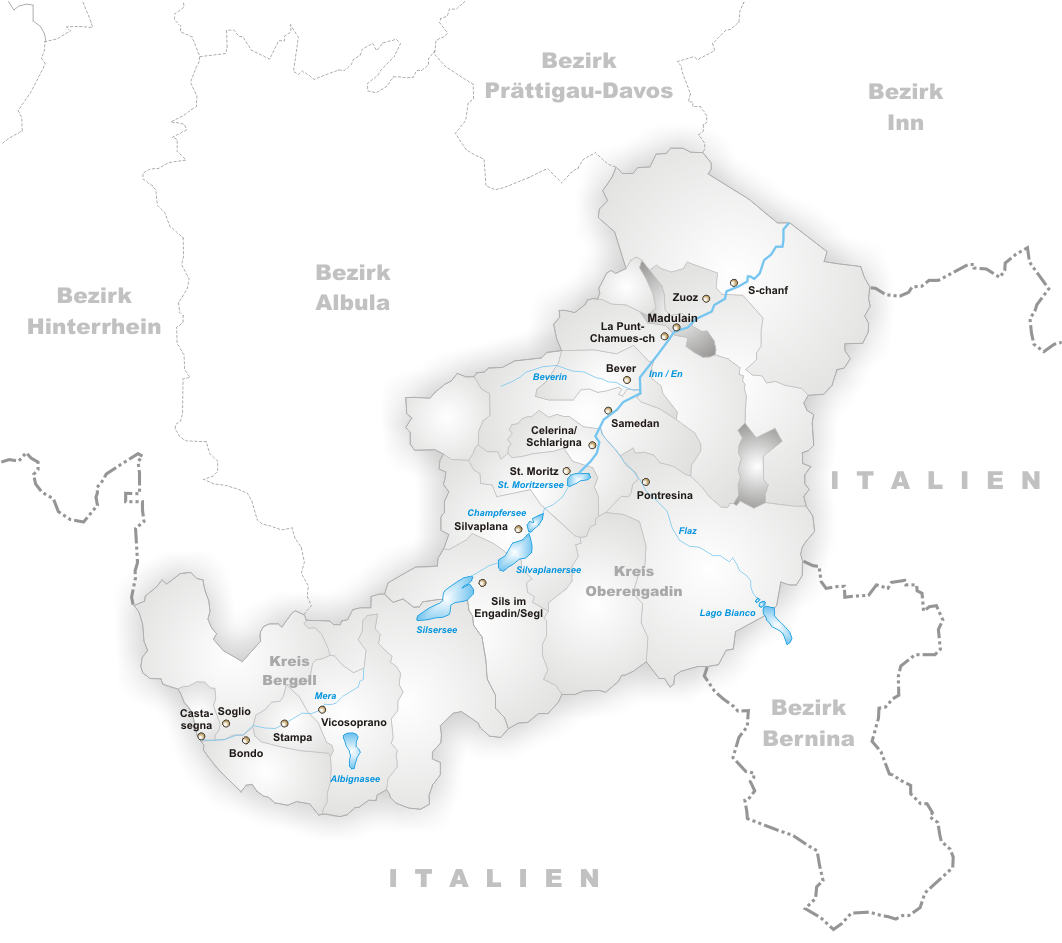 Municipality Madulain